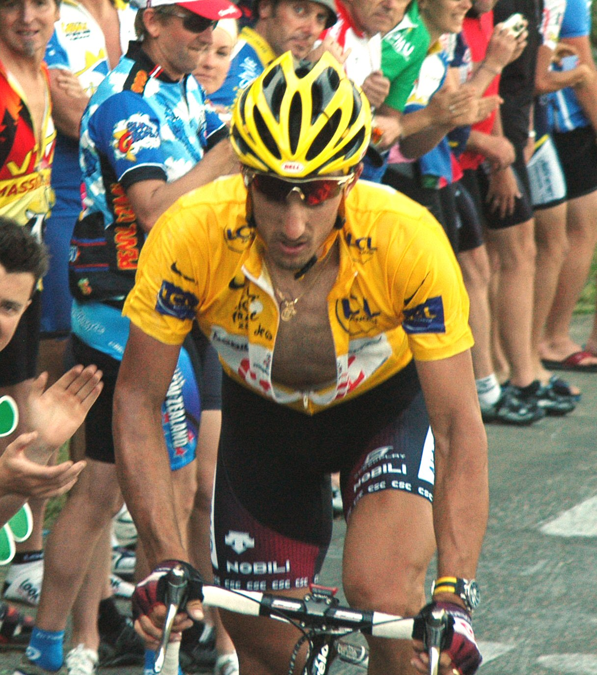 Fabian Cancellara at stage 7 of the Tour de France 2007 on the Col de la Colombière.